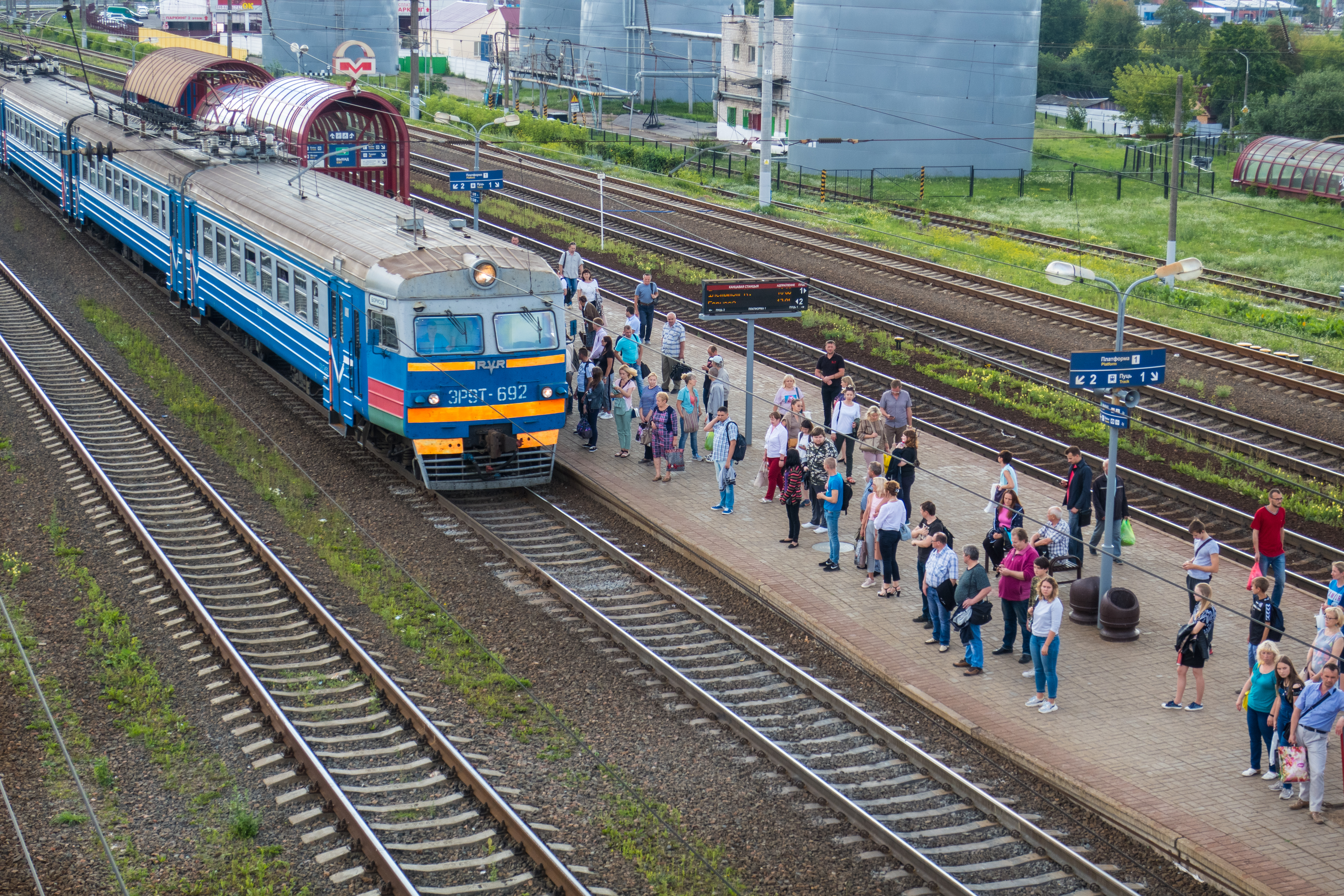 Minsk Uschodni (Minsk-Eastern) railway station. Minsk, Belarus